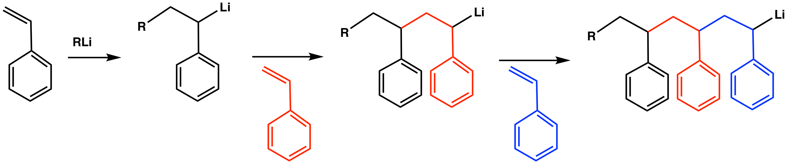 equation for RLi-initiated polymerization of styrene